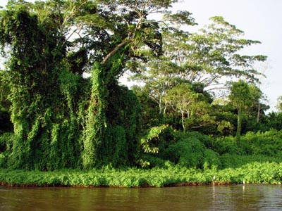 Rio San Juan